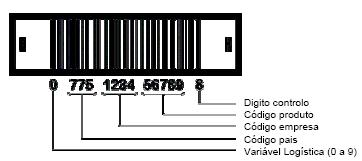 my work